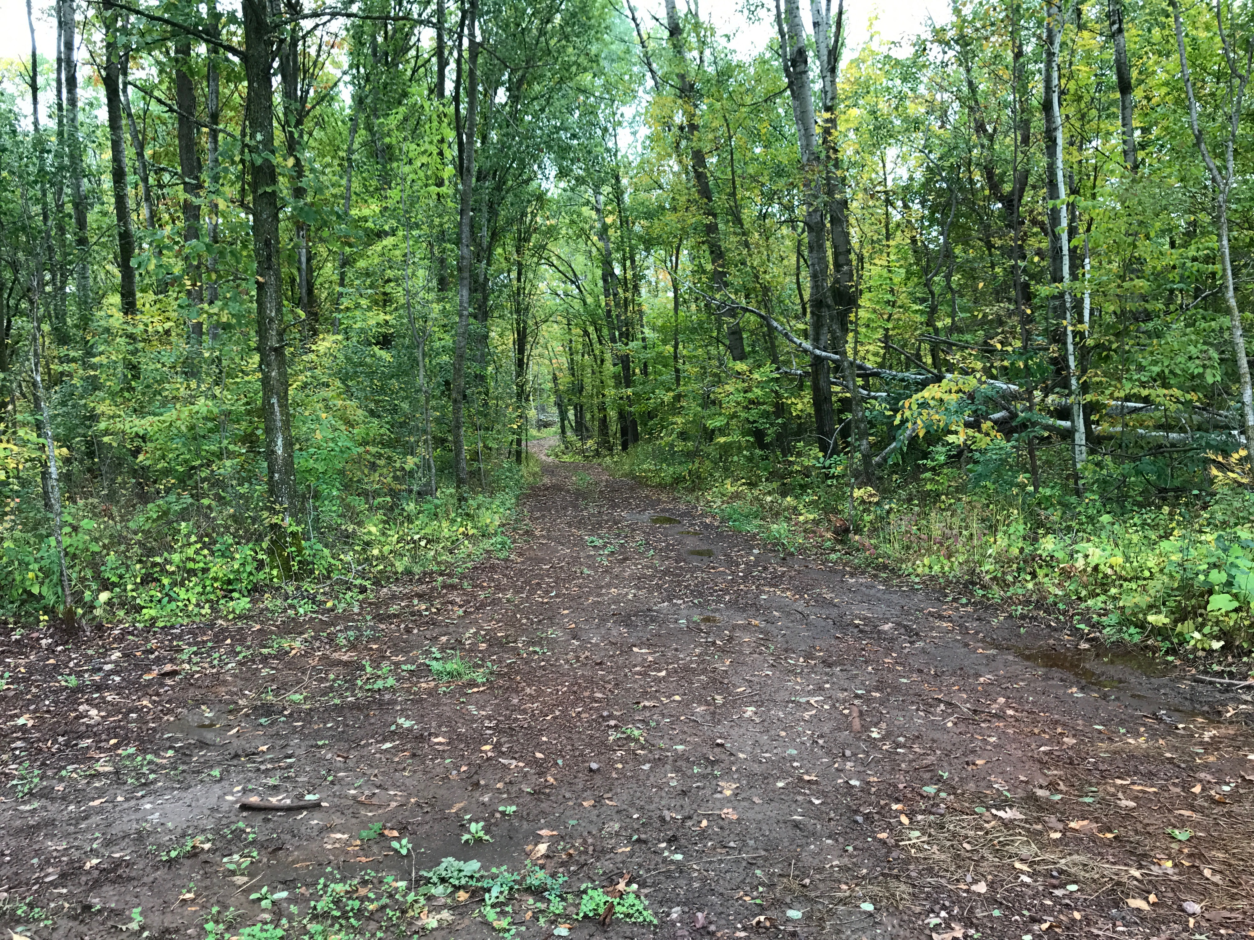 Road to Manganese, Minnesota from the Milford Mine Historic Site